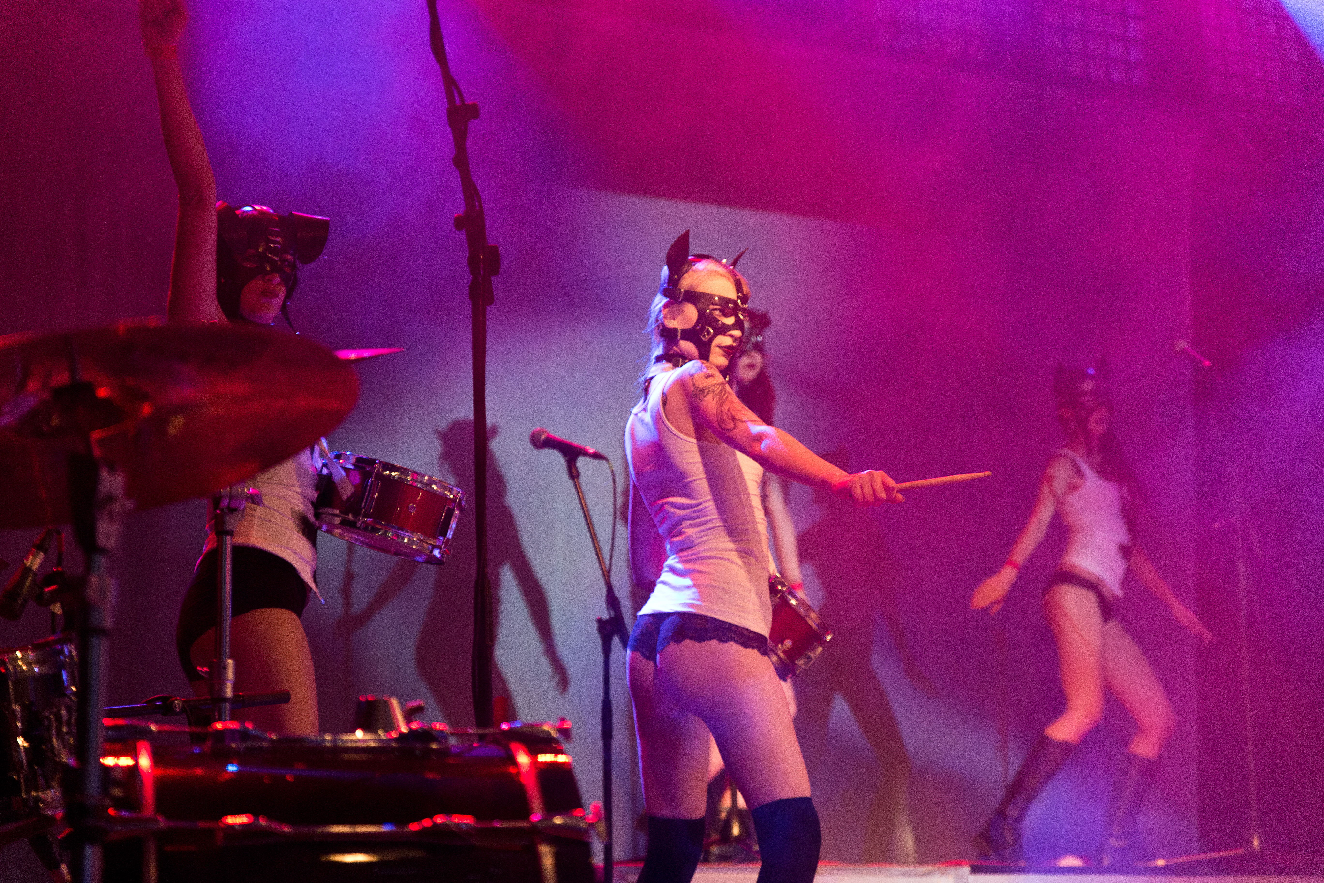 The German electro/industrial/punk band Grausame Töchter at the 25. Wave-Gotik-Treffen 2016 in Leipzig/Germany.